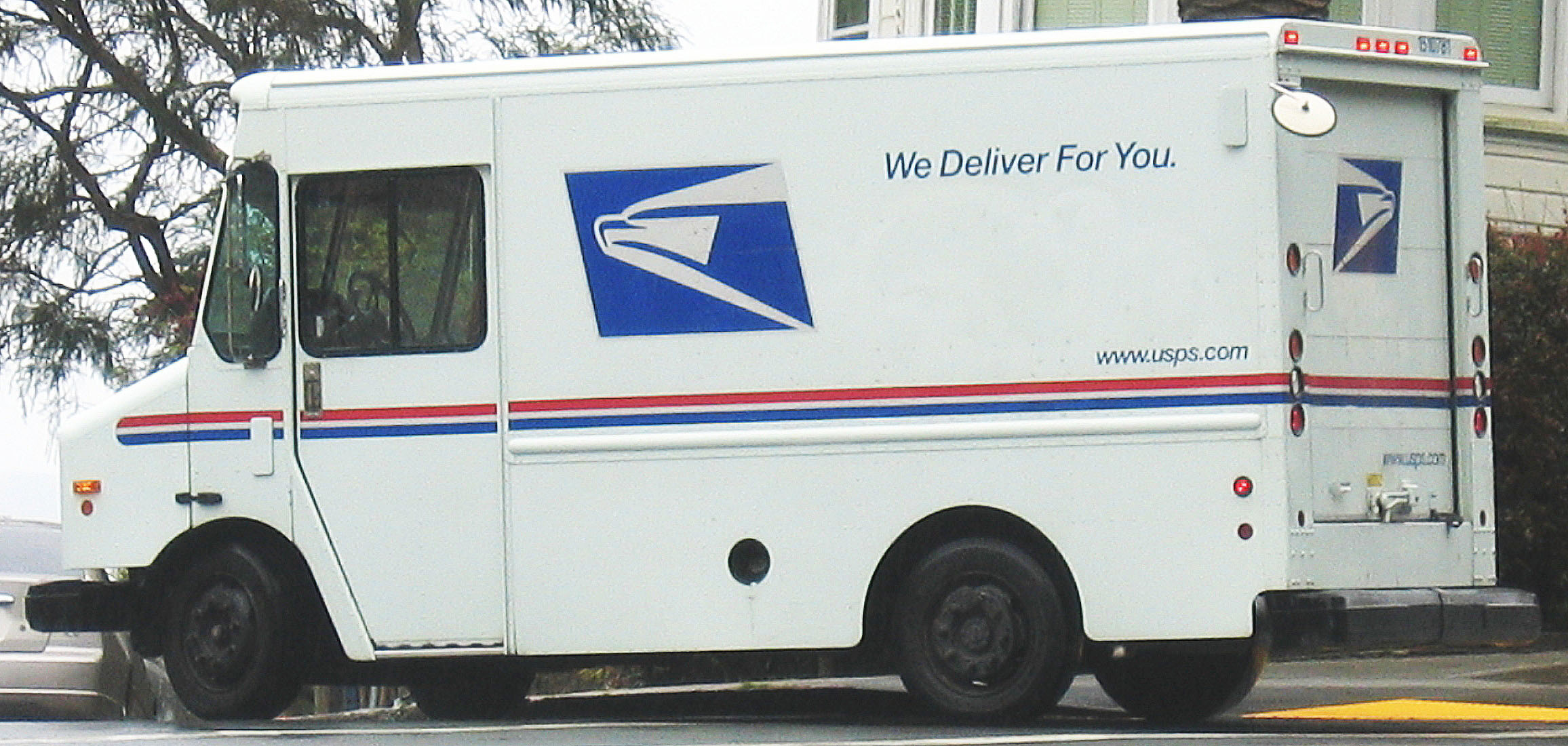 United States Postal Service delivery truck in San Francisco residential area. Location: San Francisco, CA.